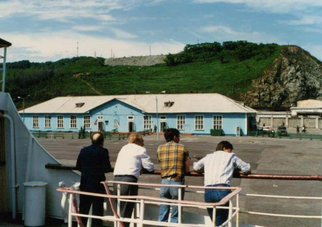 This is the immigration building. We were strongly advised not to take pictures by Intourist attendant Just before the disembarkation of FESCO.